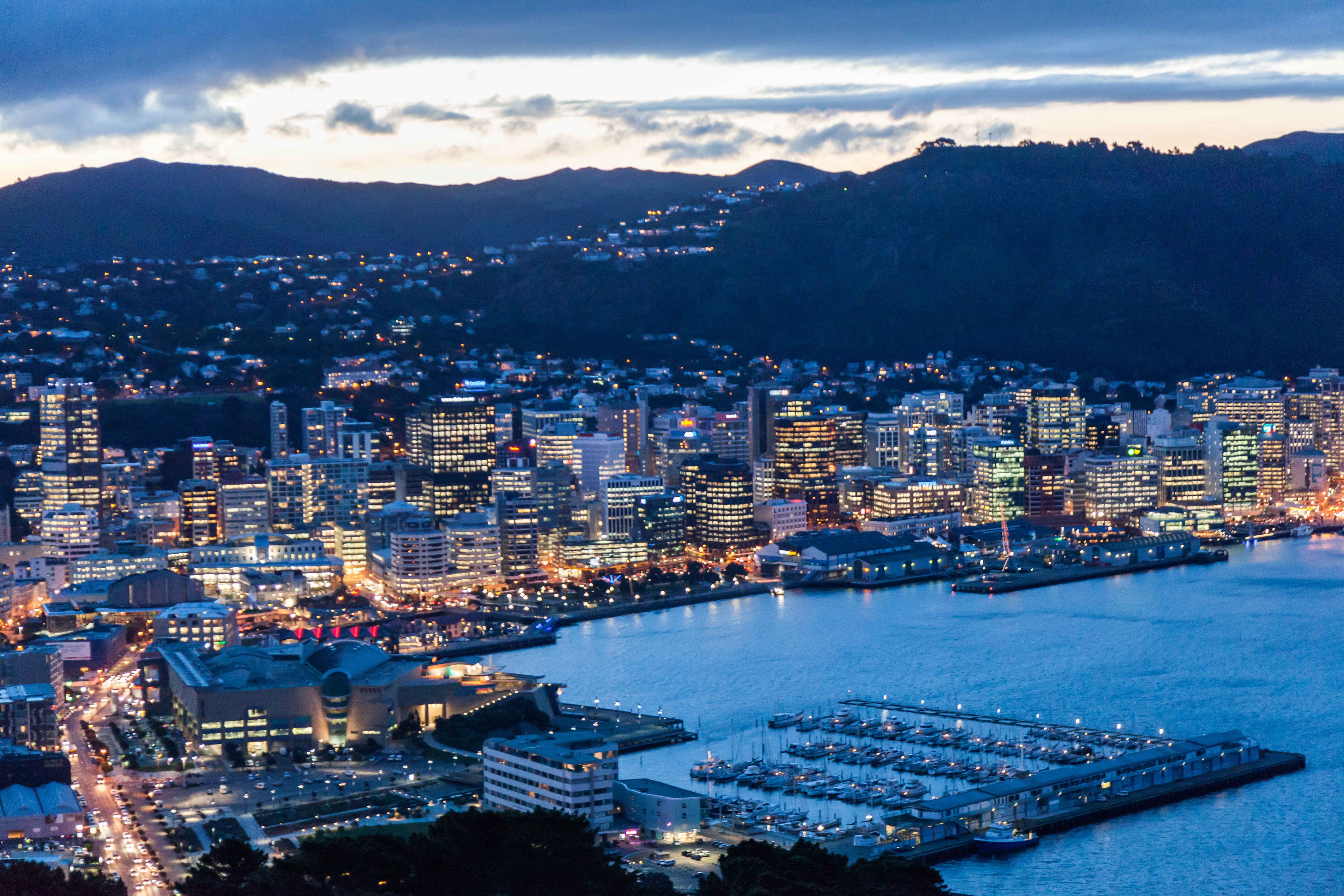 Wellington